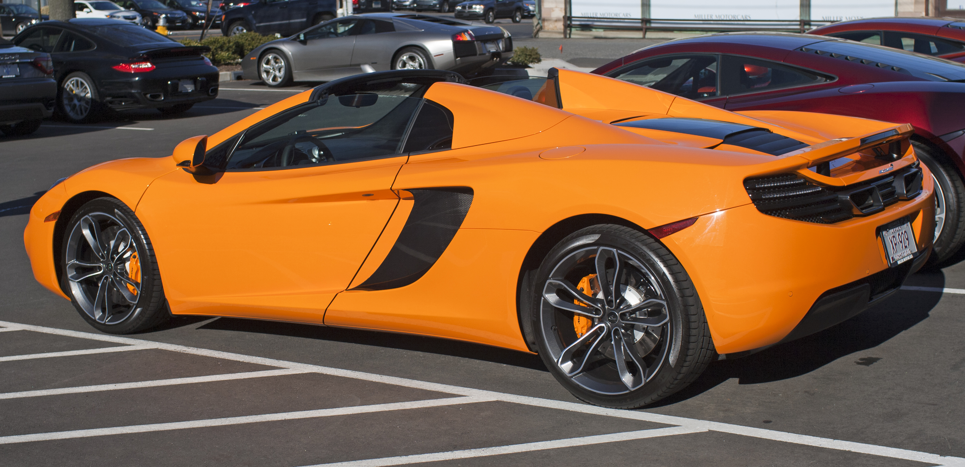 Rear 3/4 view of a 2013 McLaren MP4-12C Spider at a dealership in Greenwich, CT. Classic McLaren orange color.